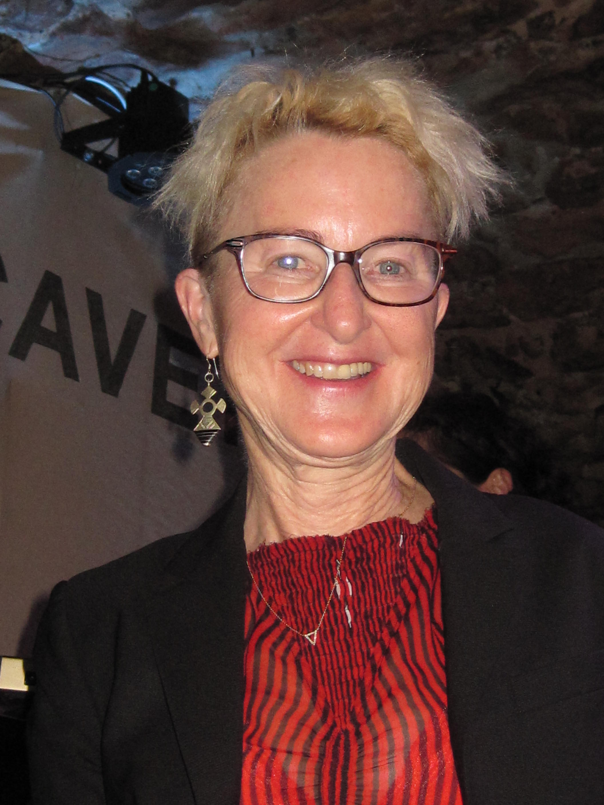 American jazz pianist Myra Melford after concert at jazz club Cavete in Marburg, Germany 2018.